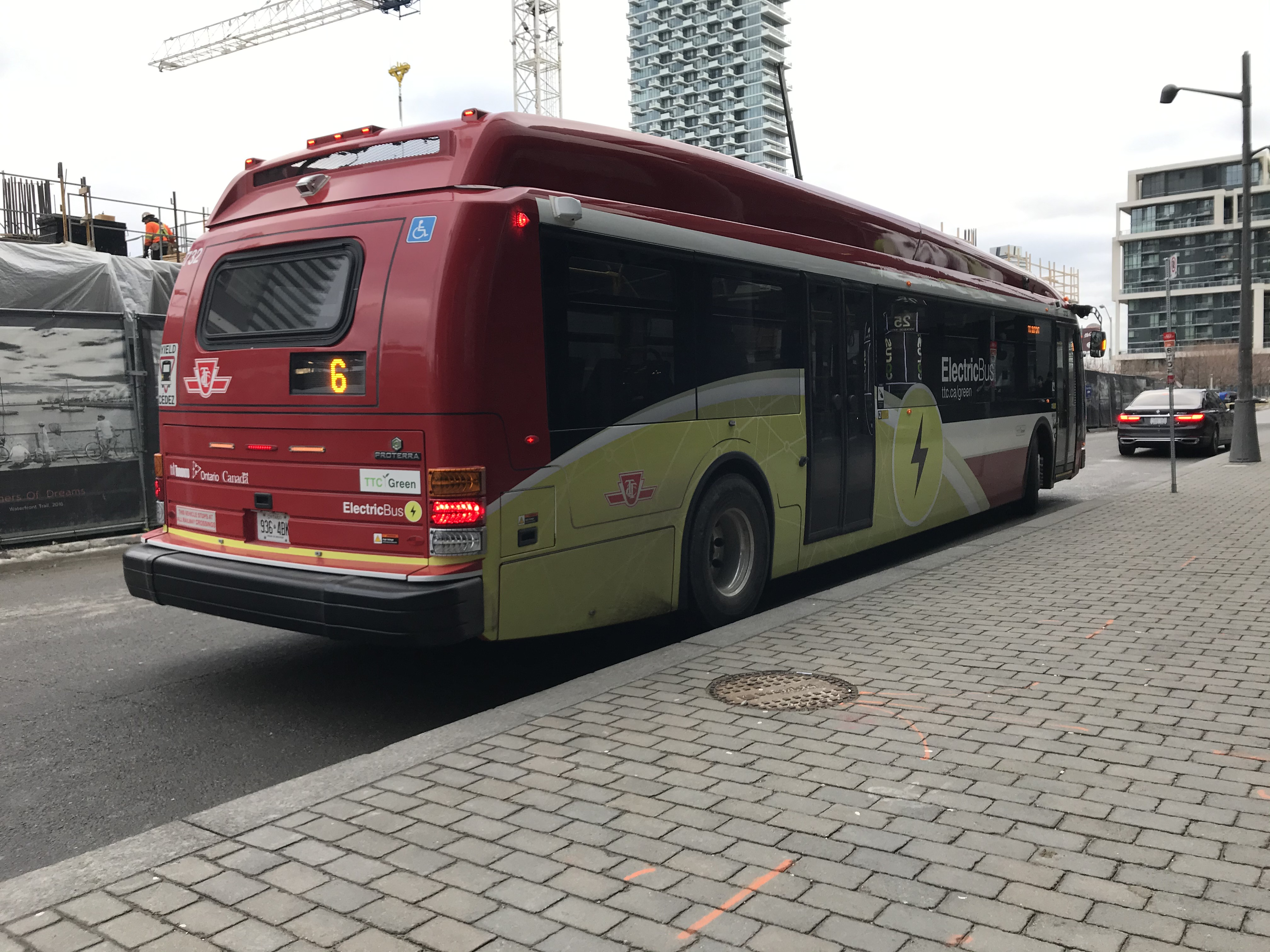 A TTC Proterra Catalyst BE40 ElectricBus, Ontario license plate 936 4BK, operating the 6 Bay route, vehicle number 3732.